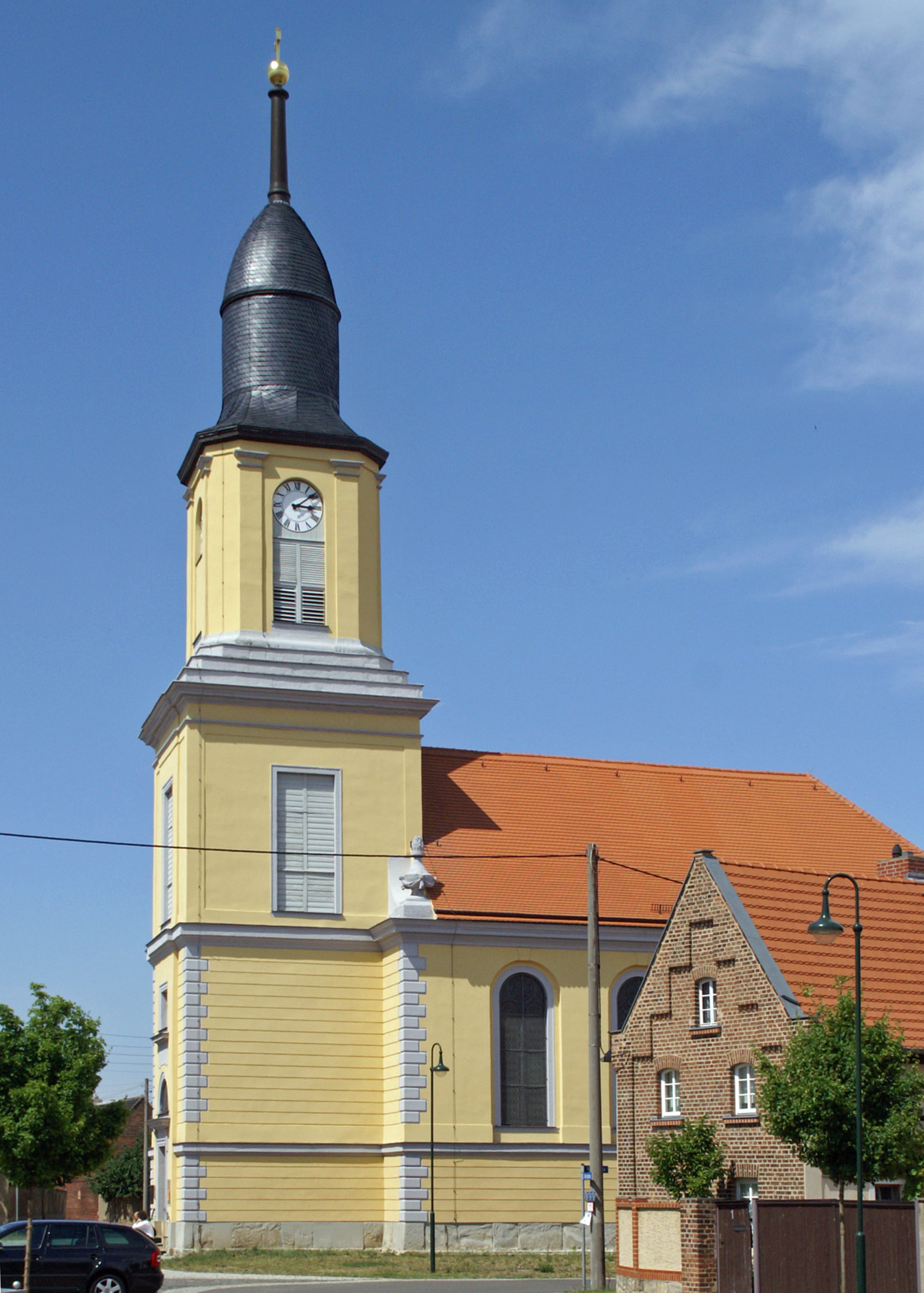 Church of Zitzschen